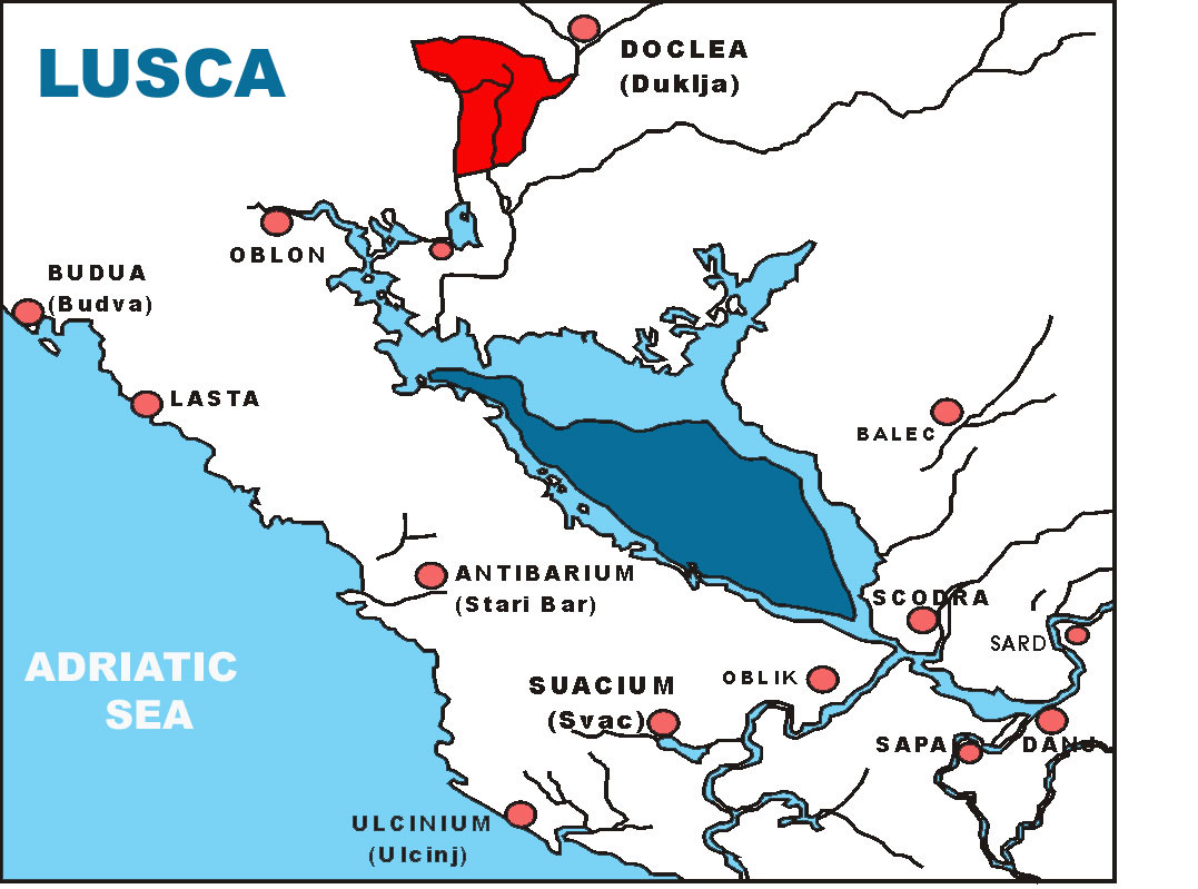 Lusca district in Dioclia ( XI c. AD).